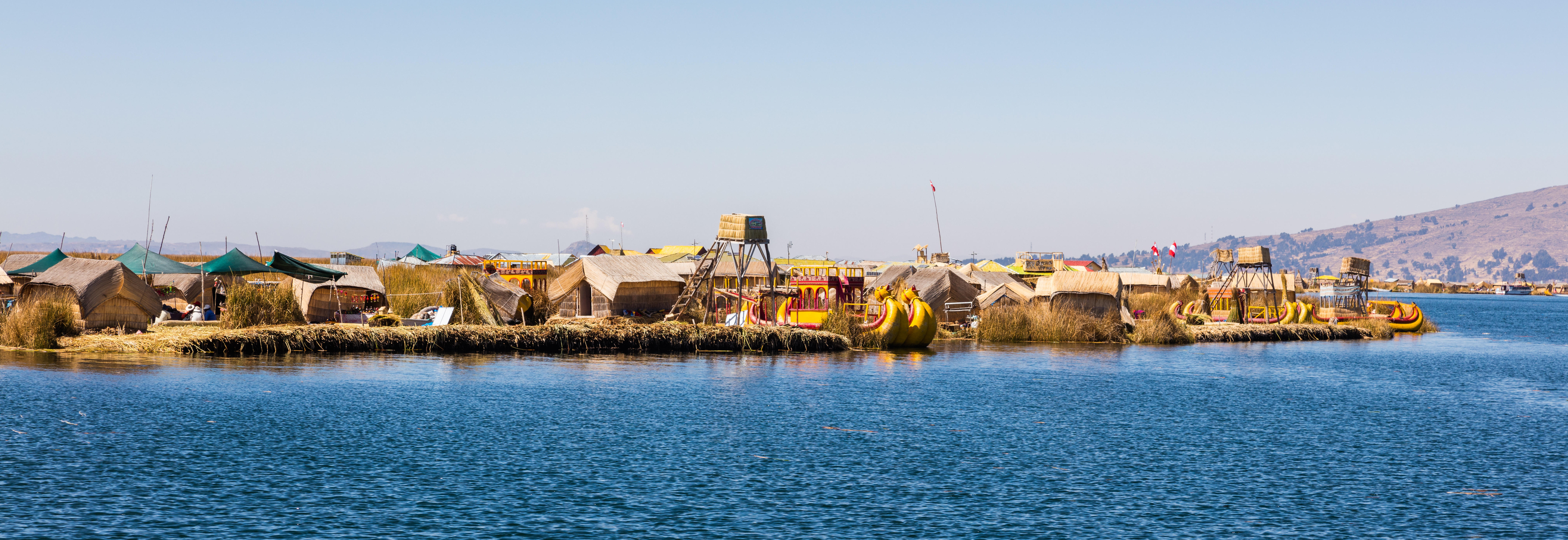 Uros floating islands, Titicaca Lake, Peru